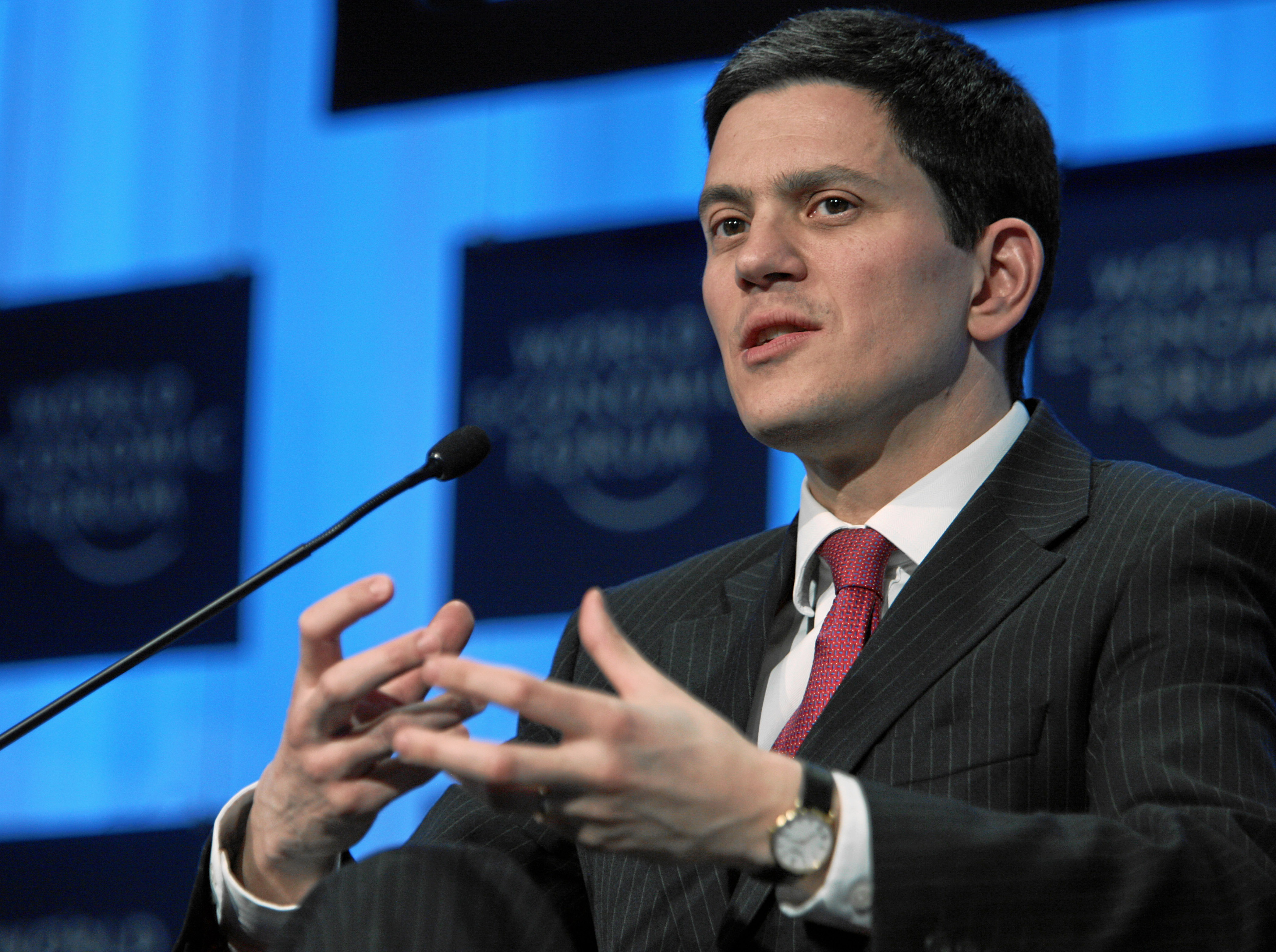 DAVOS/SWITZERLAND, 29JAN10 - David Miliband, Secretary of State for Foreign and Commonwealth Affairs of the United Kingdom, speaks during the session 'Rebuilding Peace and Stability in Afghanistan' in the Congress Centre at the Annual Meeting 2010 of the World Economic Forum in Davos, Switzerland, January 29, 2010..